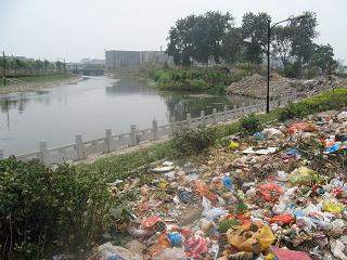 Fuyang River